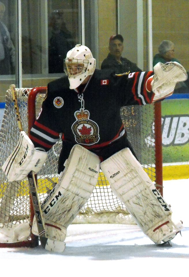 This photo was taken by Devan Mighton during the 2014-15 GOJHL season.